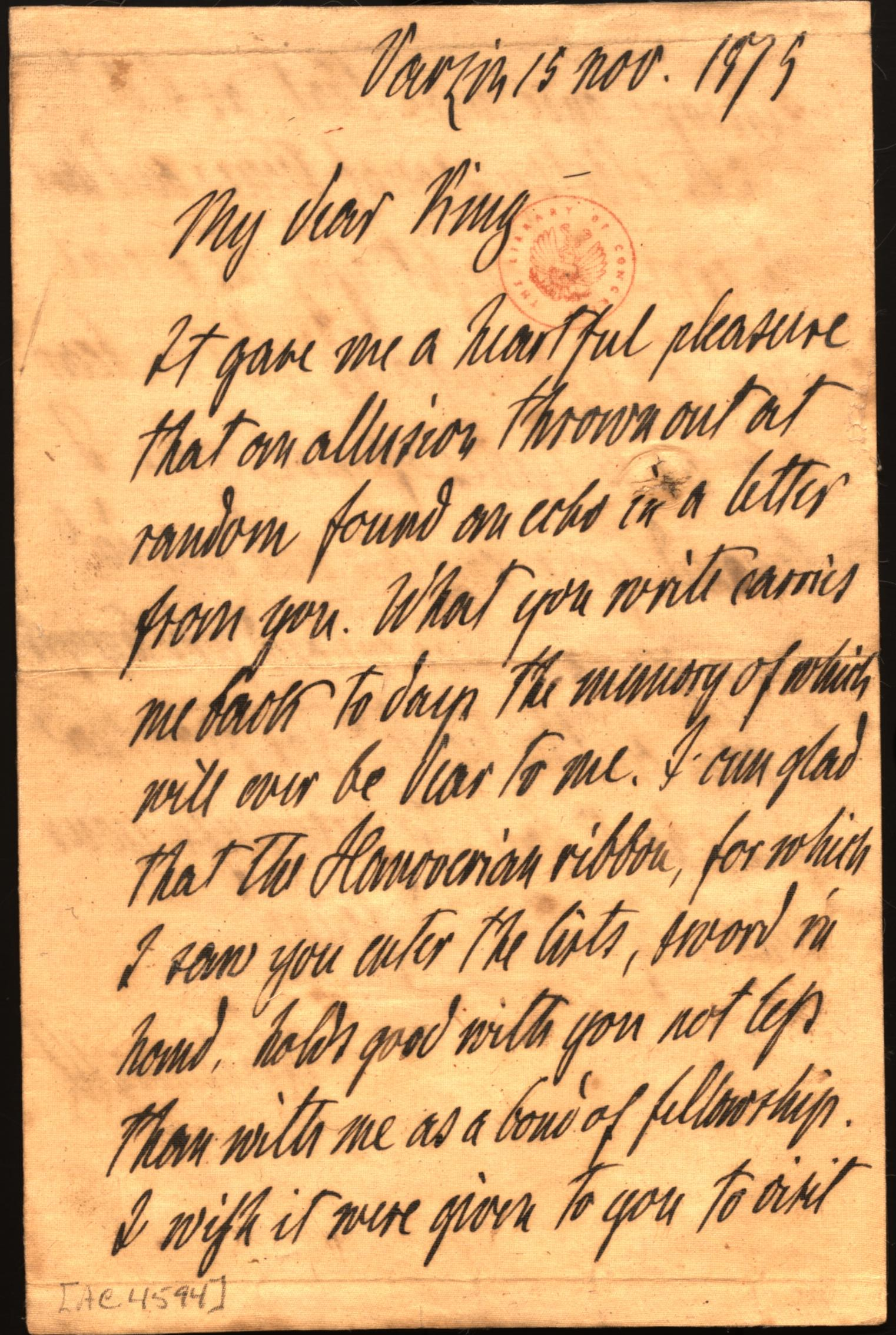 Page 1 of a personal letter written by German Chancellor Otto von Bismarck addressed to his fellow member of Corps Hannovera Göttingen, Mitchell C. King of Charleston, South Carolina, and Flat Rock, North Carolina, written at Varzin manor (Warcino) on November 15, 1875. TEXT: Varzin 15 nov 1875 My dear King It gave me a heartful pleasure that an allusion thrown out at random found an echo in a letter from you. What you write carries me back to days the memory of which will ever be dear to me. I am glad that the Hanoverian ribbon, for which I saw you enter the lists, sword in hand, holds good with you not less than with me as a bond of fellowship. I wish it were given to you to visit (...) Page 2